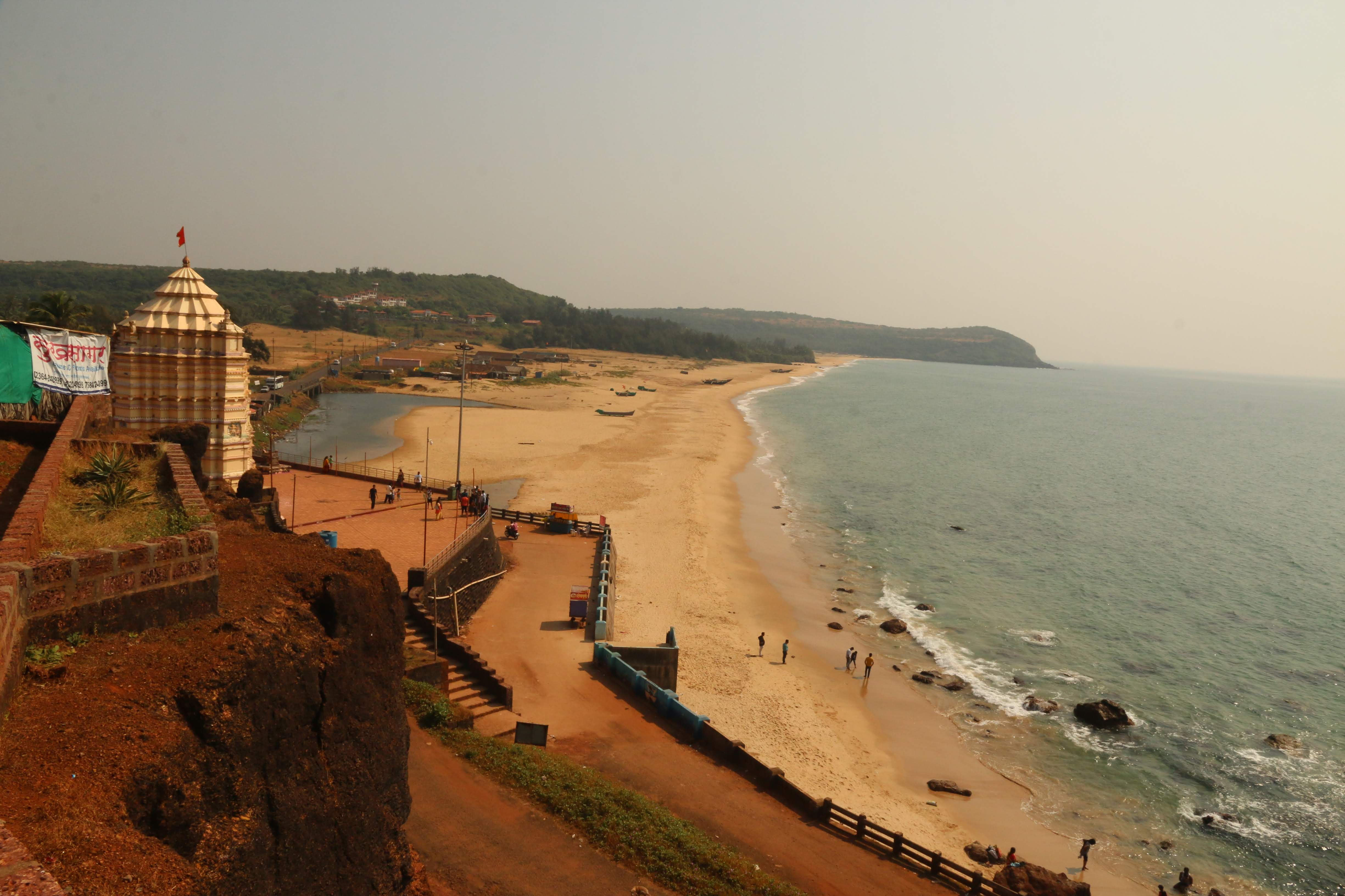 kunkeshwar seashore kokan near devgad